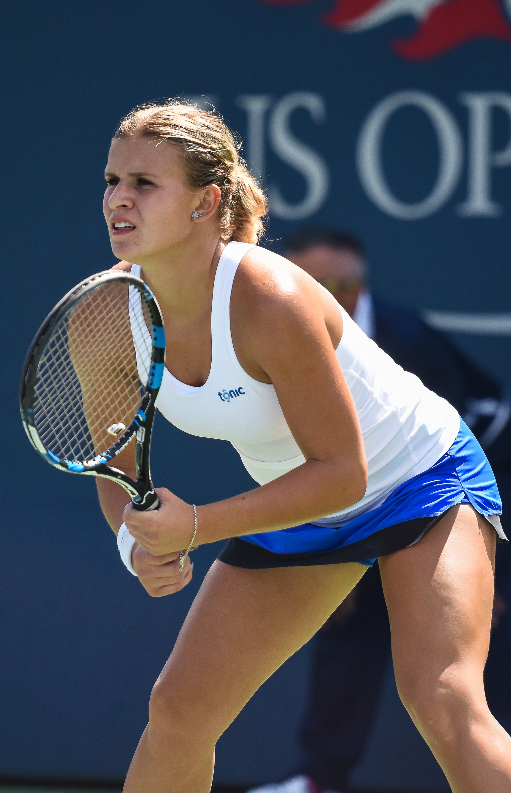 August 25, 2017 Court 5 Flushing, NY Jana Fett.